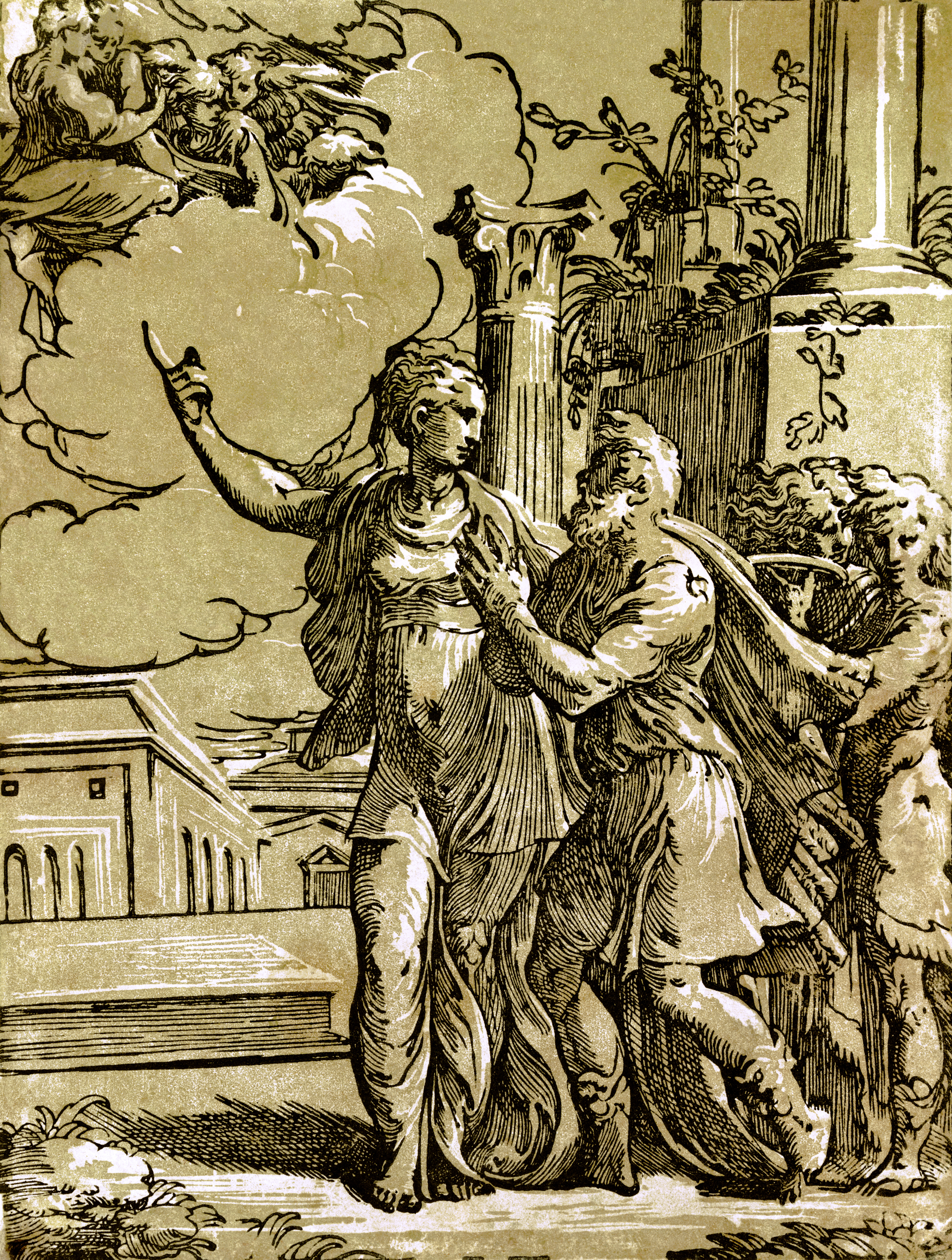 The Tiburtine sibyl and the Emperor Augustus[1], also given as The Tiburtinian Sibyl showing the Virgin Mary, with the Infant Christ in Her Lap, to the Emperor Augustus[2] is a 16th-century chiaroscuro woodcut[1] by Antonio da Trento, after a design by Francesco Parmigianino.[2]